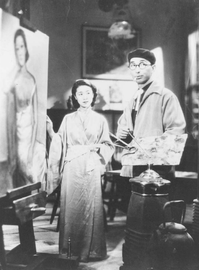 Kinuyo Tanaka and Tokuji Kobayashi in Jinsei no onimotsu (人生のお荷物) directed by Heinosuke Gosho - 1935